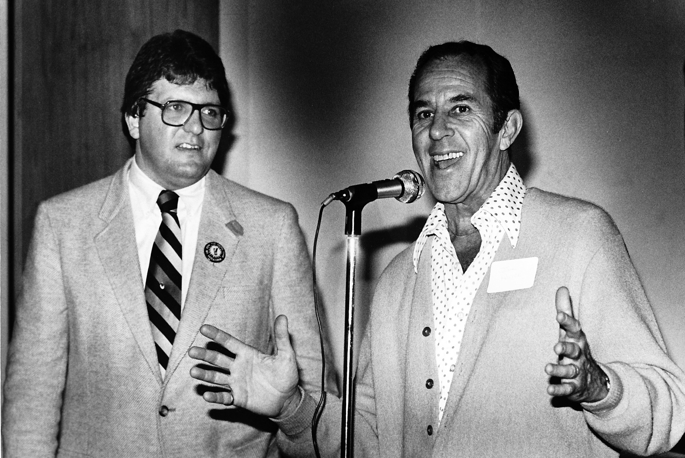 "Sheriff" John Rovick speaks at a gathering while Pat Nolan looks on.